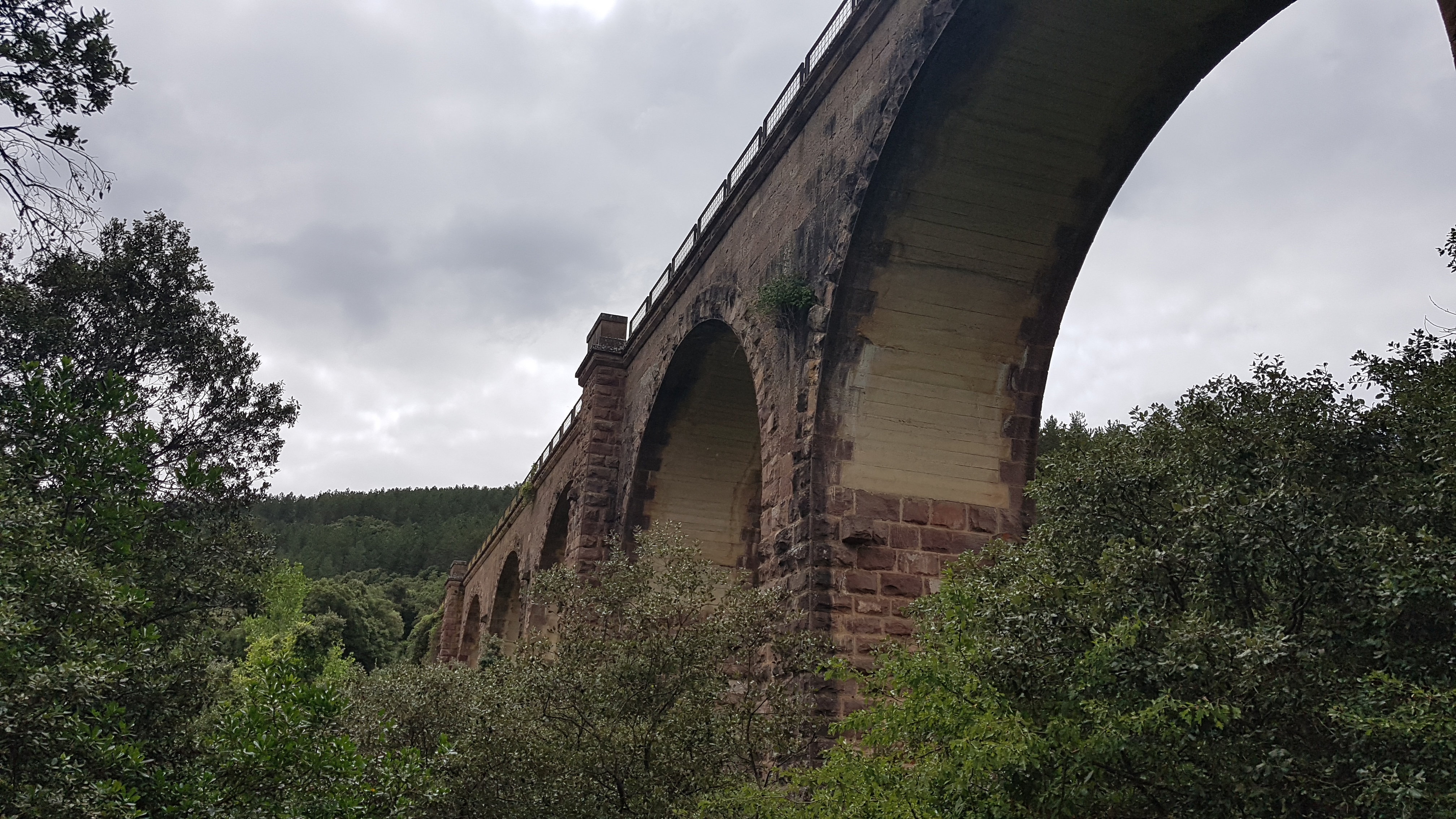 View of the viaduct of Arkijas (Zuñiga) of the Anglo-Vasco-Navarro railway from the north-western side (bottom view)